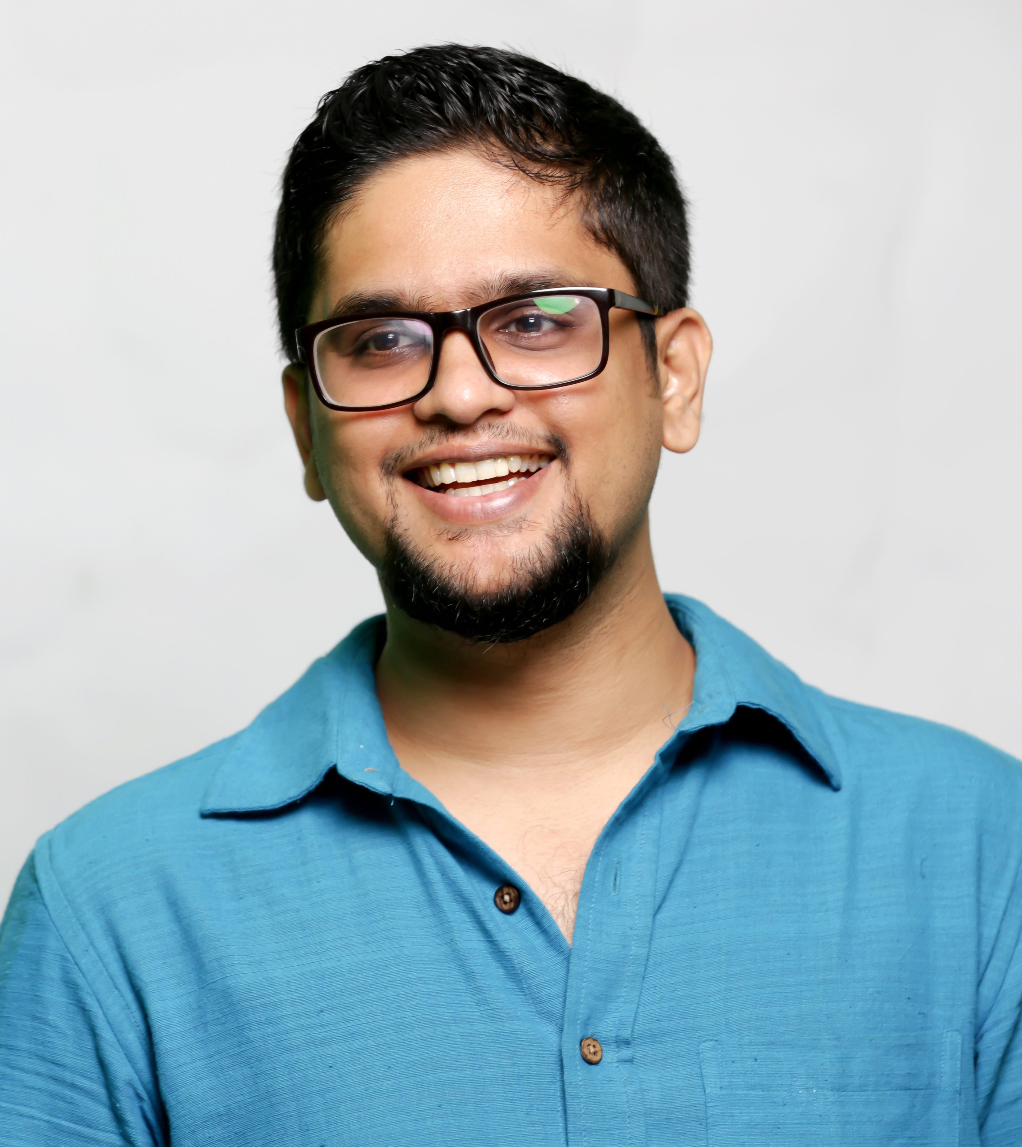 A recent photo of Indian Music Composer and Director - K